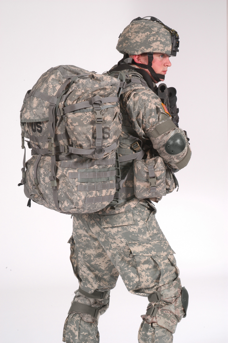 Summary From Army website